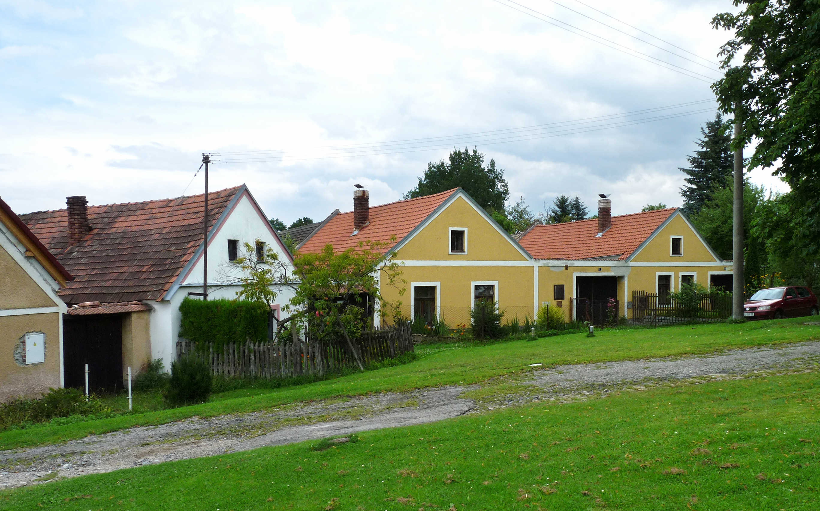 House No 1 in the village of Lniště, České Budějovice District, Czech Republic. Česky: Dům č.p. 1 ve vsi Lniště, části obce Slavče v okrese České Budějovice.